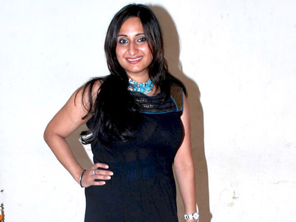 Biba Singh at the launch of singer Rashmi Chouksey's music album 'Sherawali Ke Nagariya Mein'